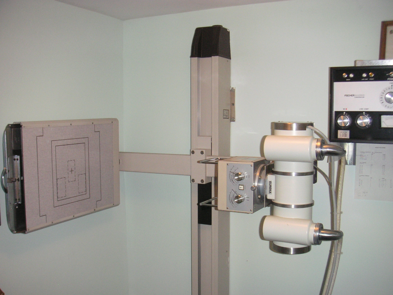 X-ray Machine at a Chiropractic Office in Pennsylvania